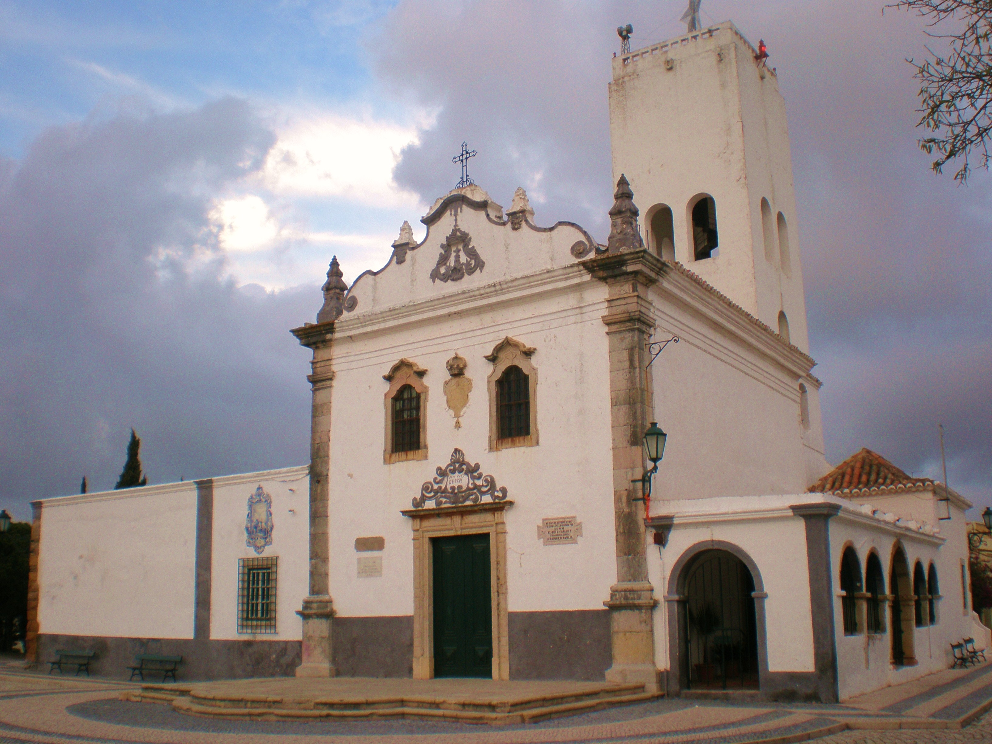 Church of Santo António do Alto, Faro, Portugal